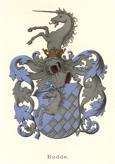 Coat of arms of the Budde family